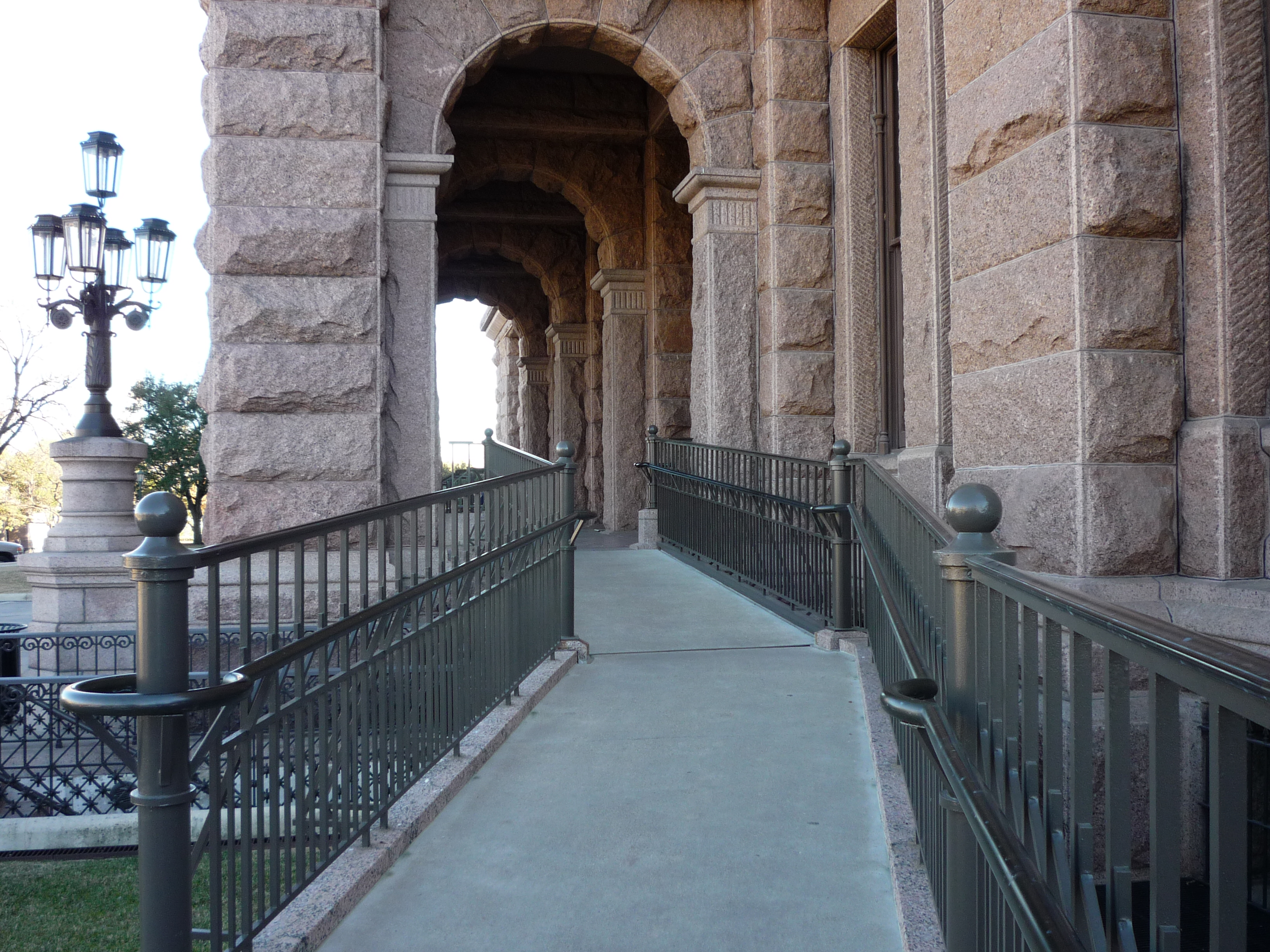 Access ramp - ADA access, Wheelchair ramp